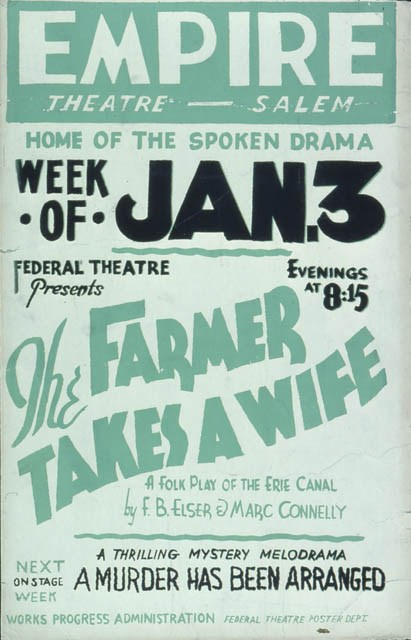 Title: The farmer takes a wife Creator: Connelly, Marc, 1890- Eiser, F.B. Other Contributors: Federal Art Project, sponsor Federal Theatre Project (U.S.), sponsor United States. Work Projects Administration, sponsor Catalog No.: F10-3A-1 Date Created: 1938-01-03 Date Issued: 2002-12-19 Subjects: Theatrical posters, American Theater DOC Collection(s): Federal Theatre Project Poster, Costume, and Set Design Slides Collection Web Site: Links for viewing/playing this object: Digital Collection Web site: Multi-page image viewer: Display Files: Web display version: F10-3A-1display.jpg (image/jpeg) 57422 bytes